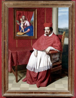 Portrait of Cardinal Rapaccioli or Cardinal Paolo Emilo Rondinini